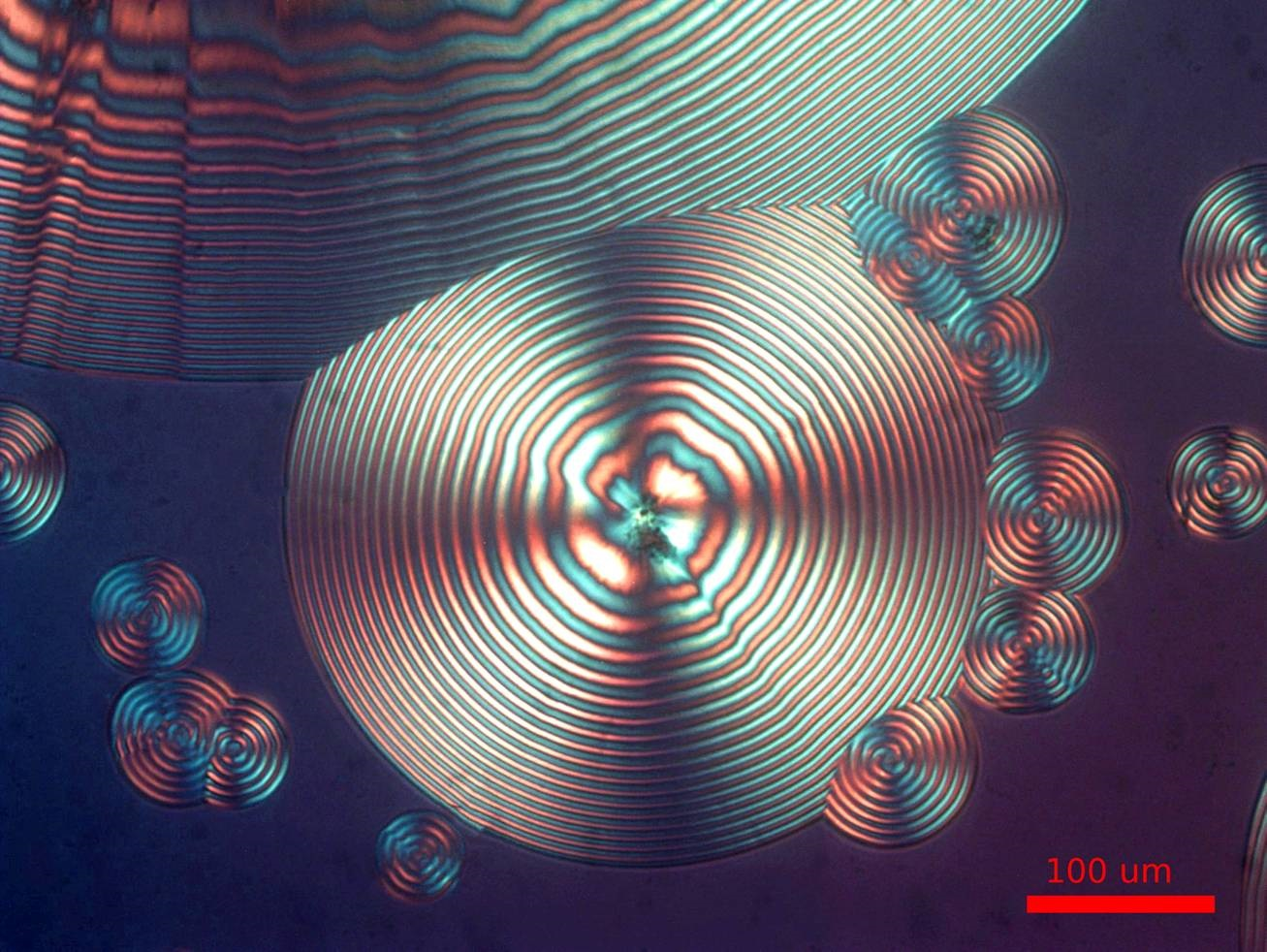 Spherulitic crystals of poly(hidroxy butirate) grown during cooling from the melt.